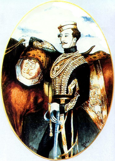 Louis Edward Nolan, watercolour